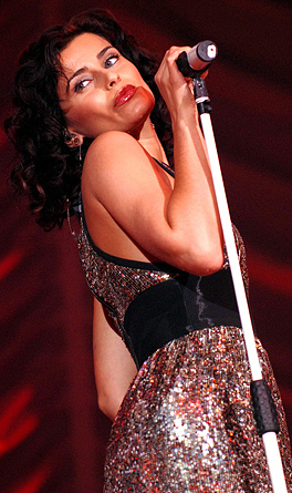 Nelly Furtado at Manchester Arena (February 16, 2007) - Retouched